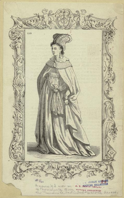 Greek woman of Thessalonica, 1500s, Thessalonike, west central Macedonia, Greece. From Costumes anciens et modernes : habiti antichi e moderni di tutto il mondo.